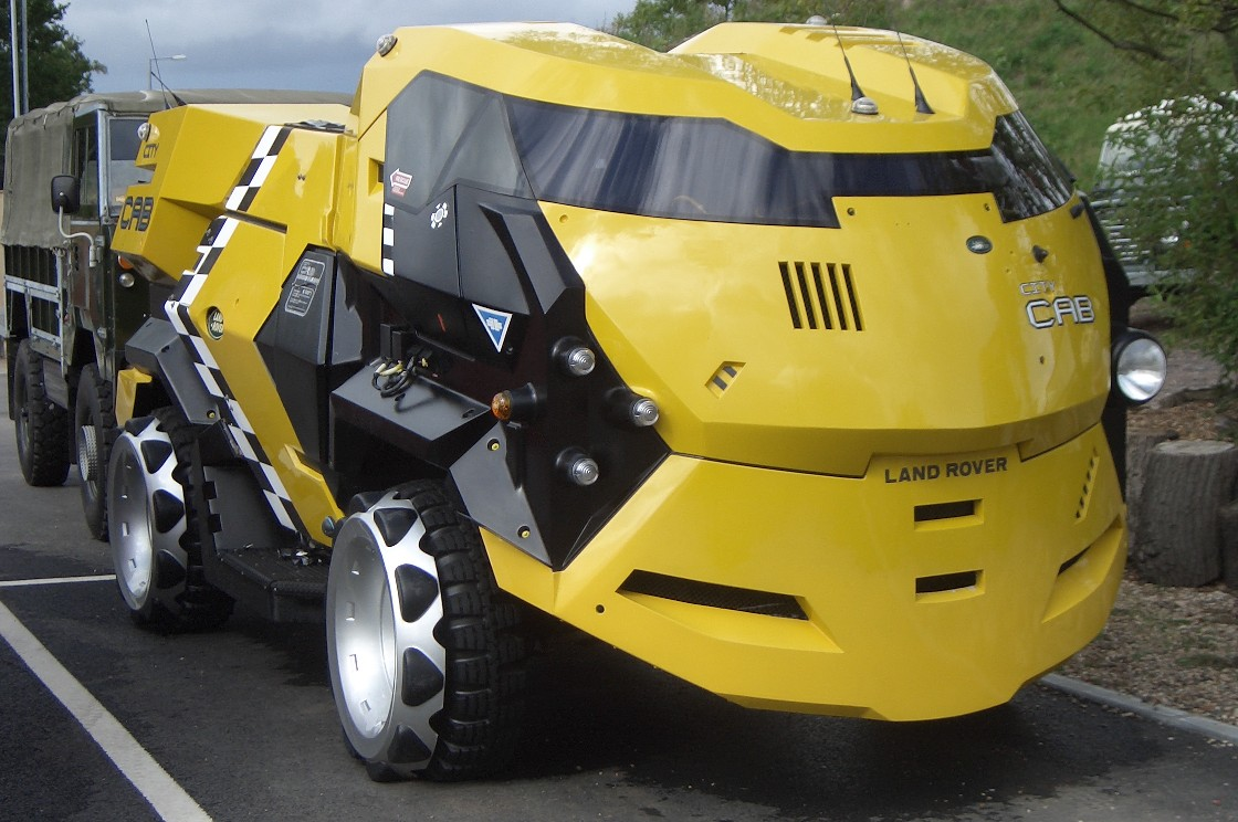 Land Rover Forward Control - Judge Dredd Custom Car, Land Rover Museum Gaydon/UK